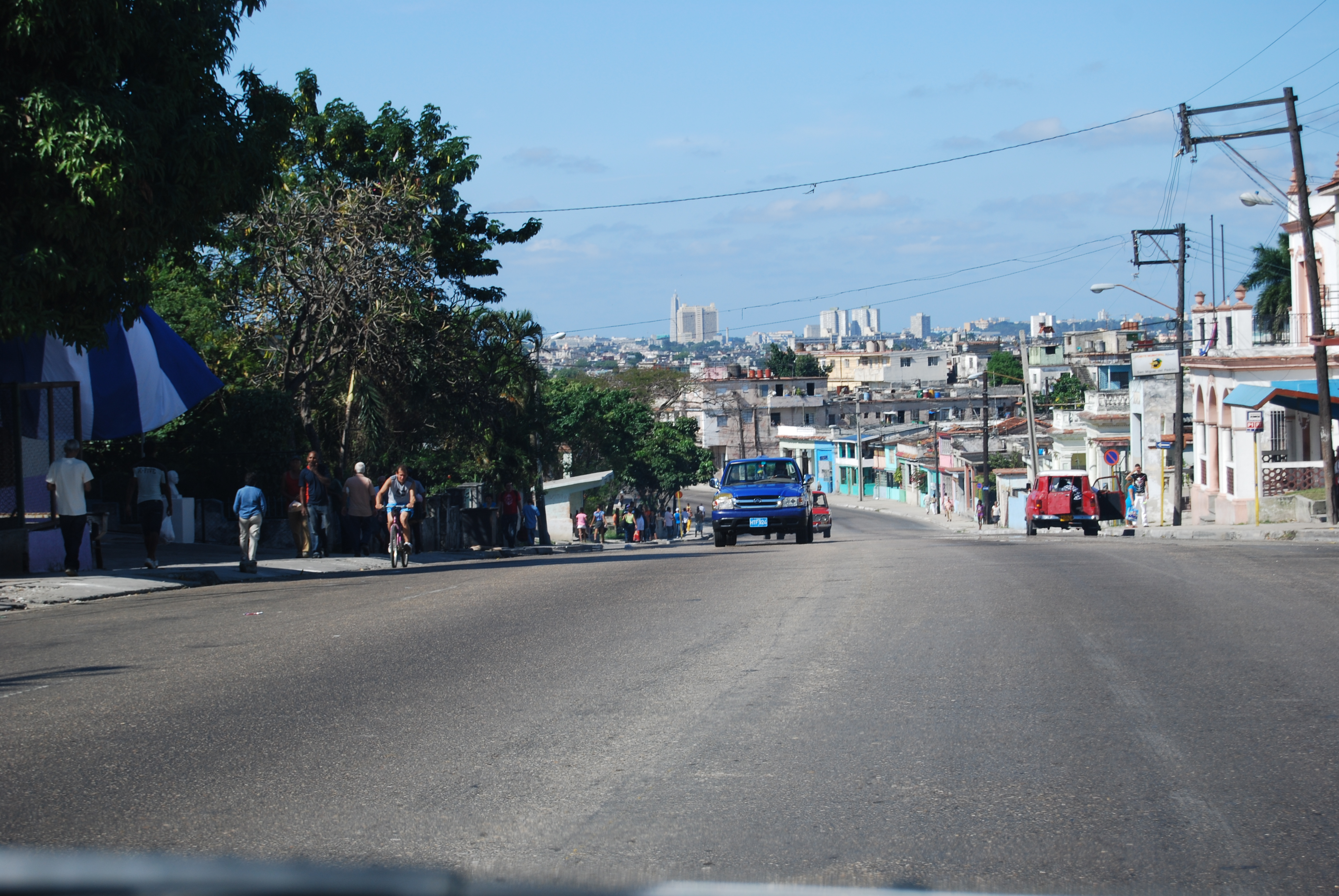 San Miguel del Padrón, Cuba